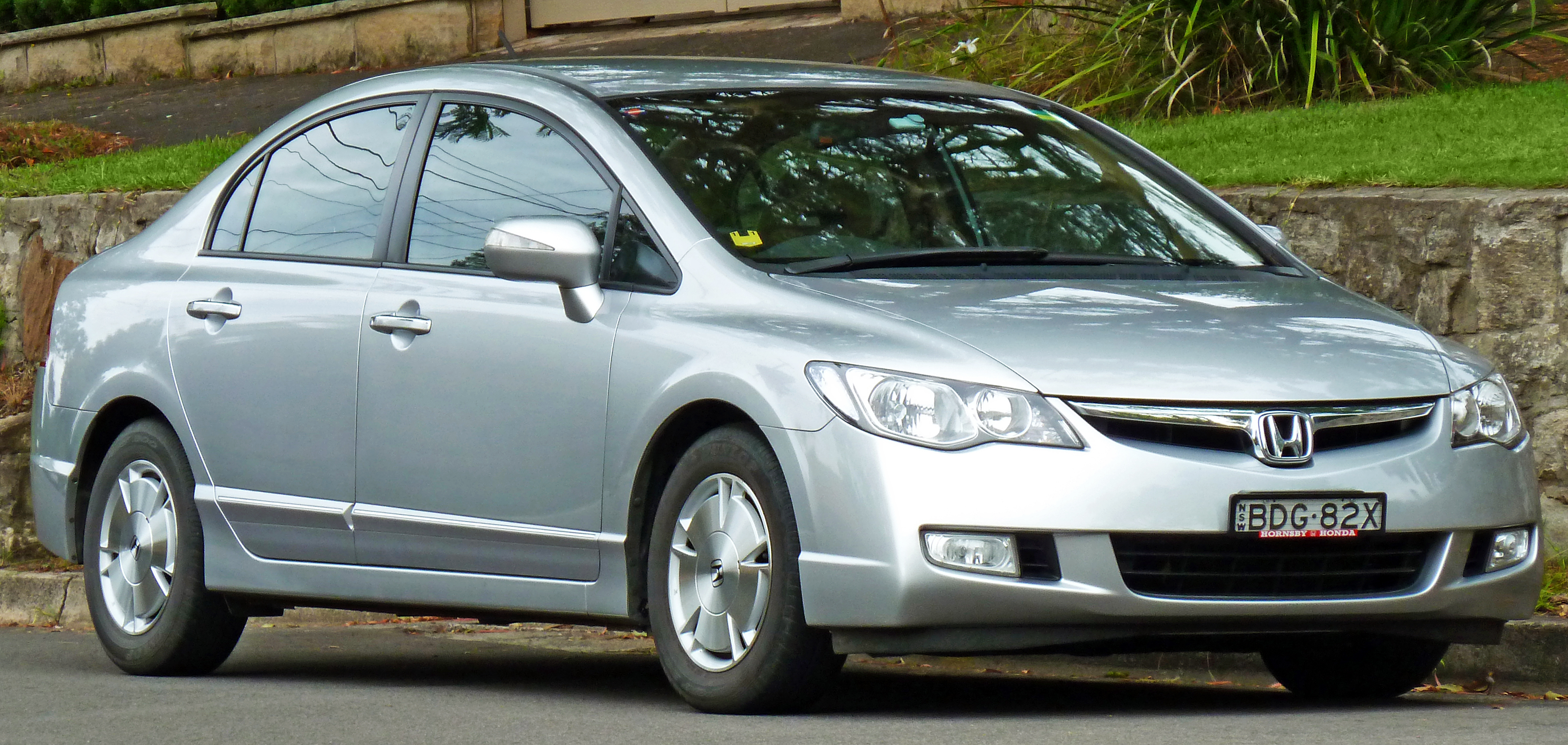 2006–2008 Honda Civic Hybrid sedan. Photographed in Lindfield, New South Wales, Australia.